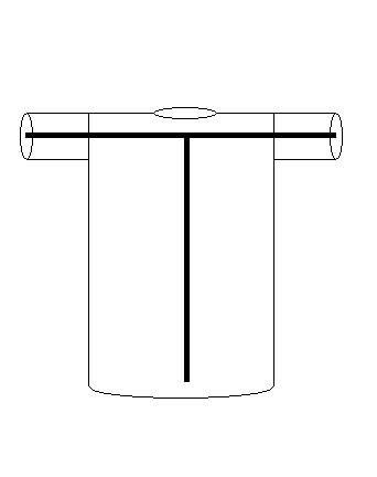 A typical T-Shirt design with round neck. T-Shirt is used as underwear and or as clothing on the upper part of the body.